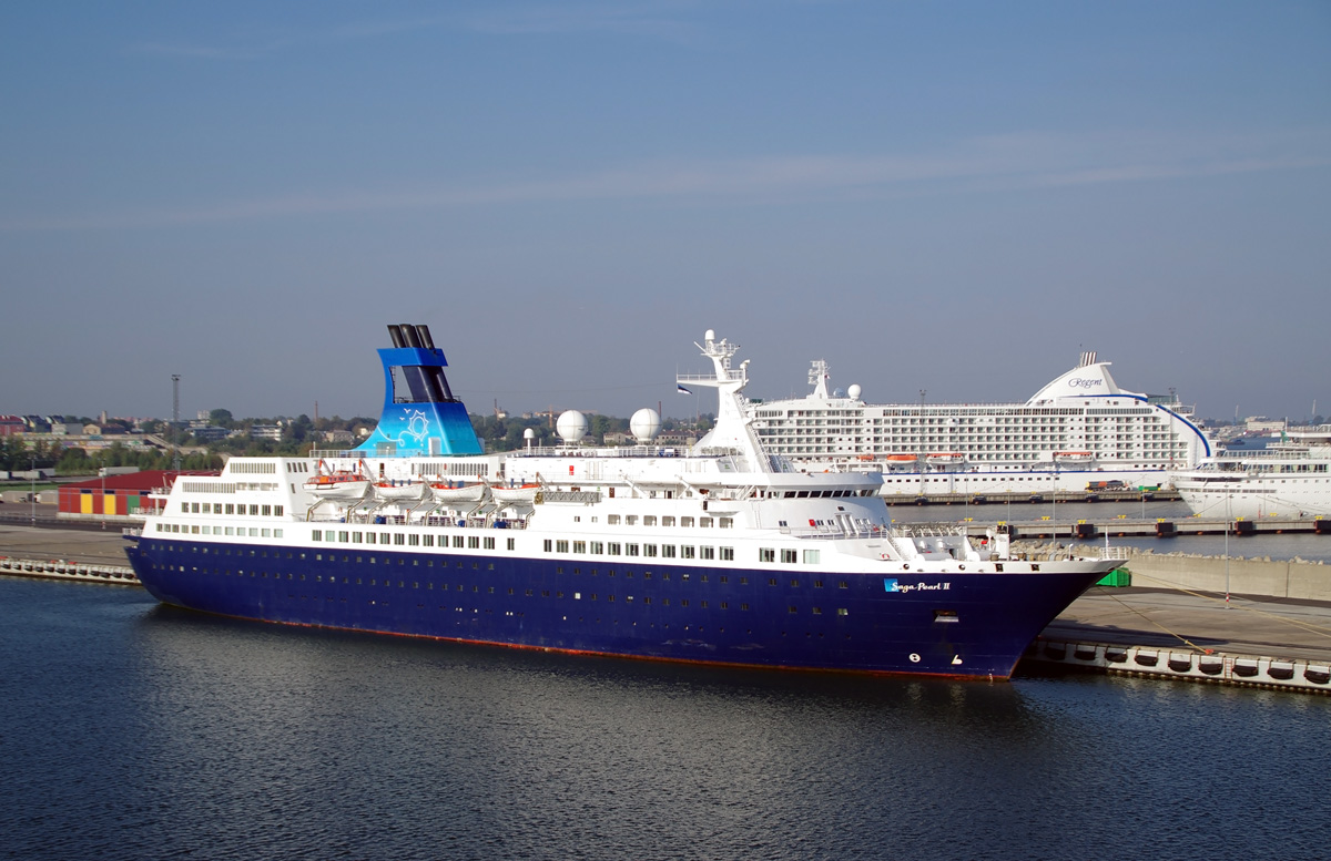 Saga Pearl II at quay 15 in Port of Tallinn 20 September 2014